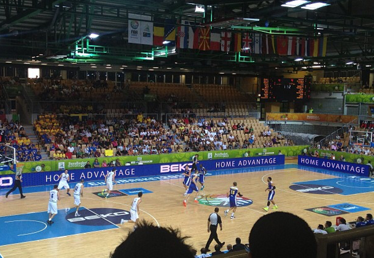 Bonifika Arena with specators